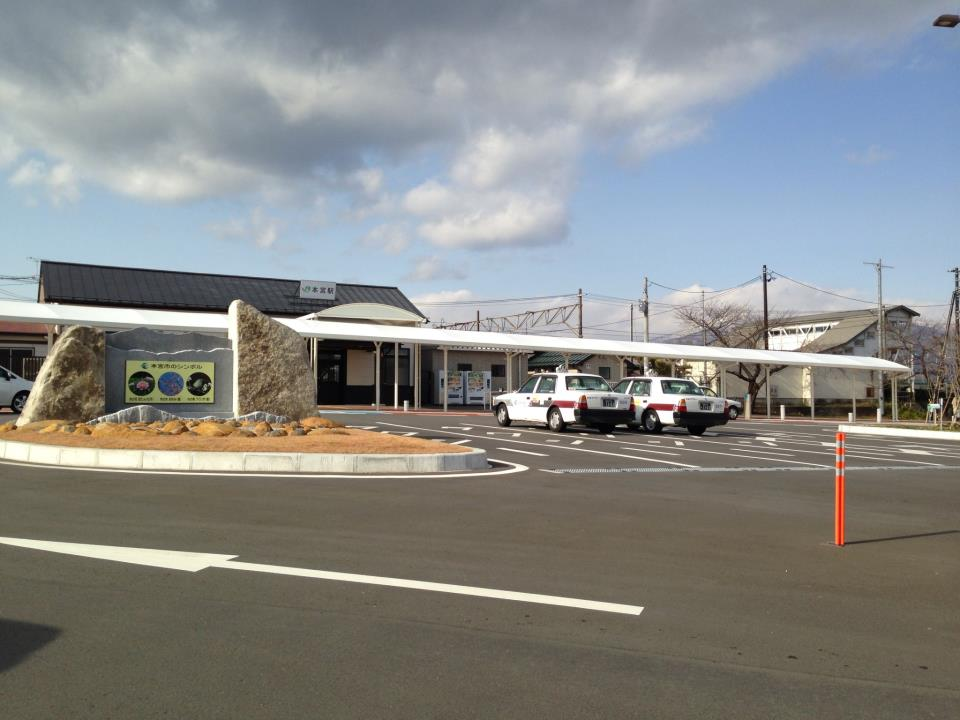 JR-East TOHOKU Line MOTOMIYA station